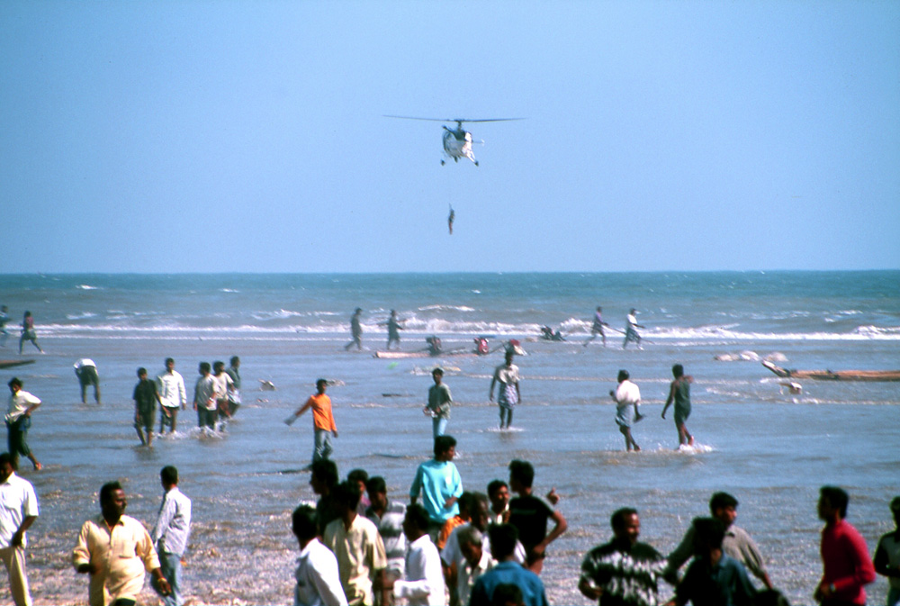 Chennai in India, Marina Beach on December 26, 2004 - Rescue operation after the first tsunami wave. Photograph by Henryk Kotowski